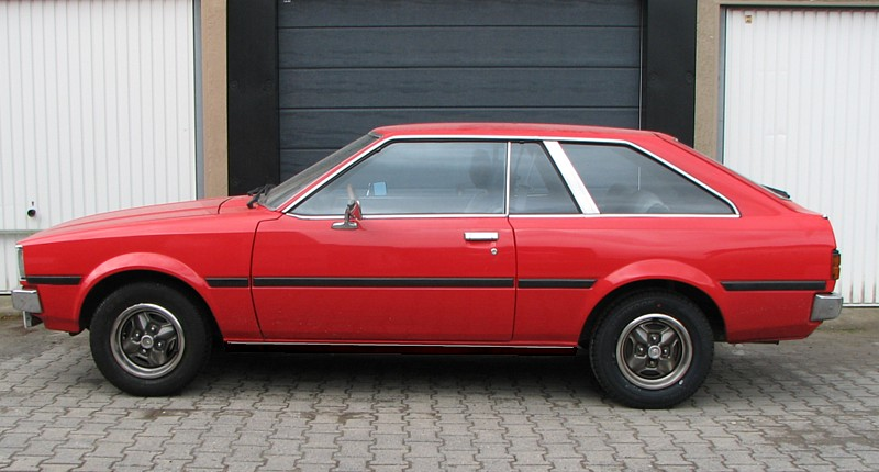 1981 Toyota Corolla Liftback 1.6SE (TE71)